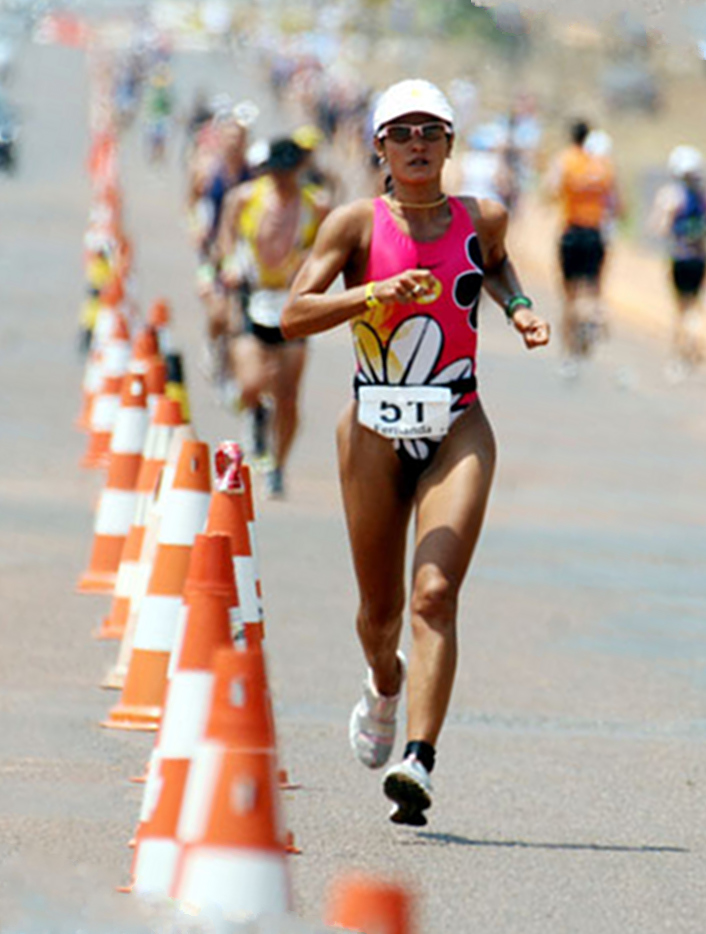 „Queen of Brazil“ Fernanda Keller on the final running section of a triathlon